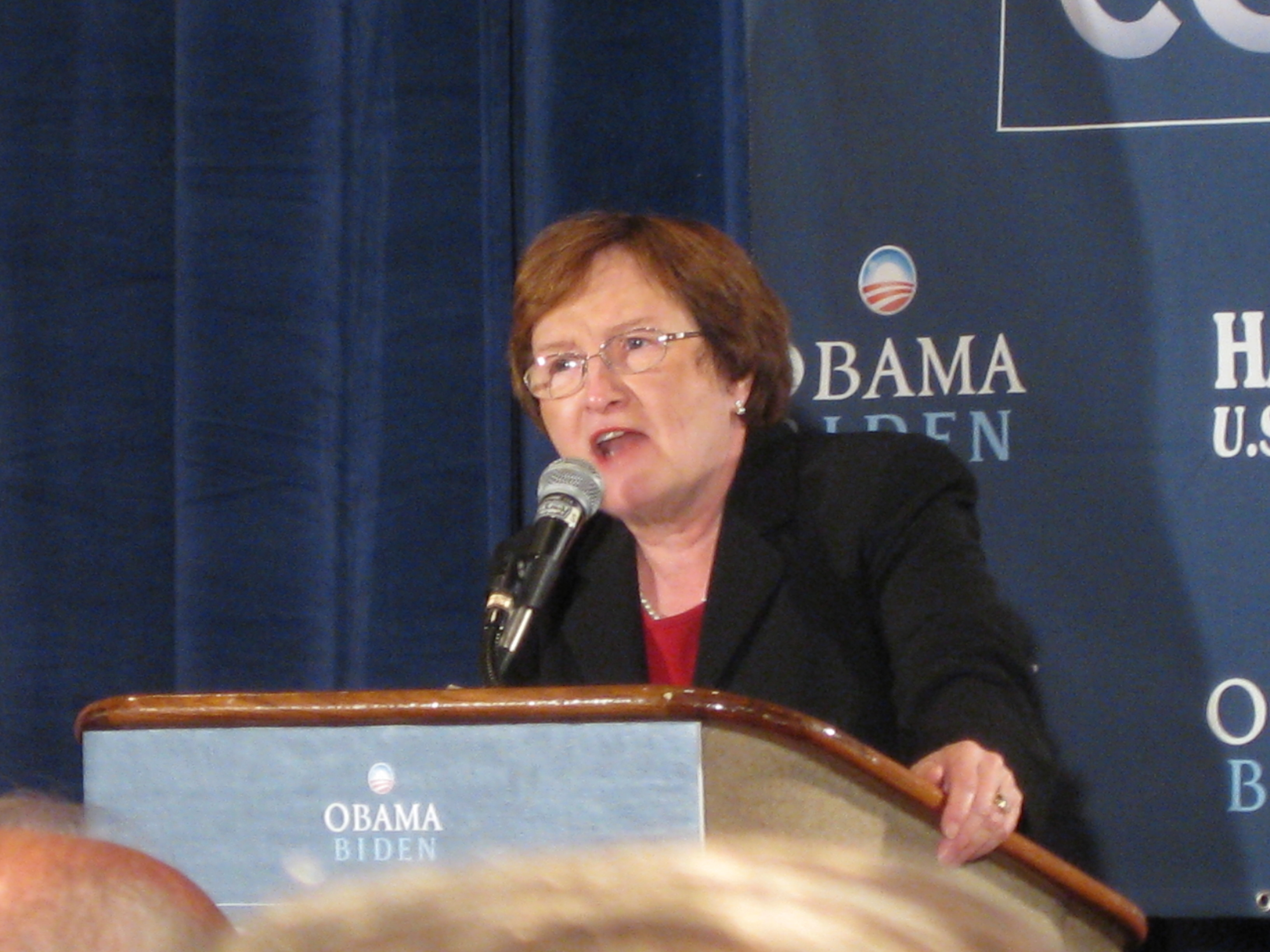 Patty Judge, Lieutenant governor of Iowa addresses the crowd early on in the evening.